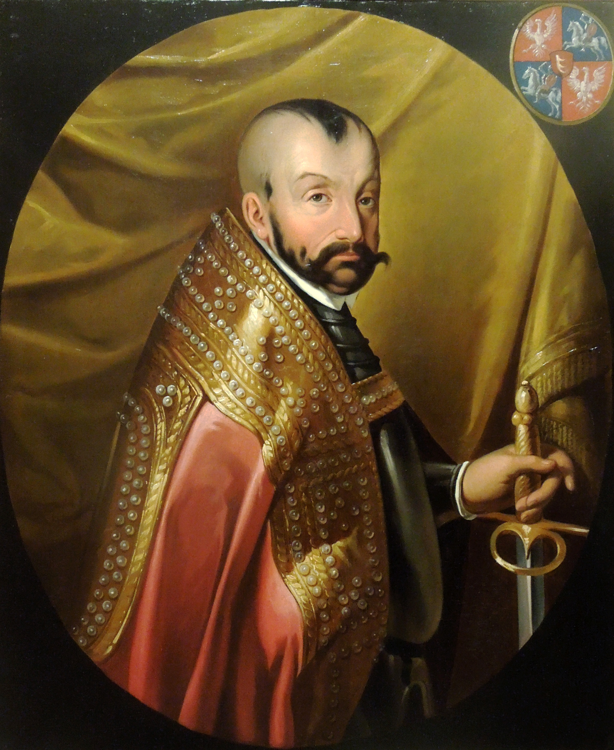 Aleksander Raczyński - Portrait of King Stefan Batory; copy of a painting from the early 17th c.